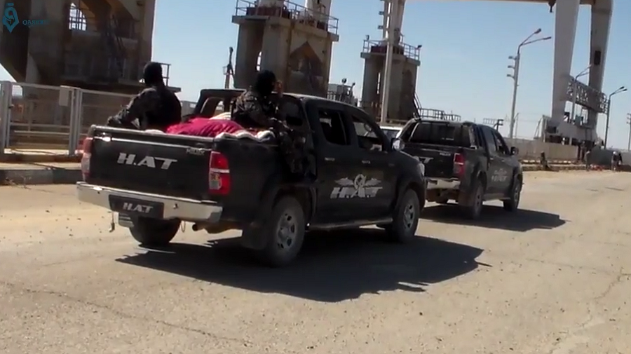 HAT special forces in Tabqa.